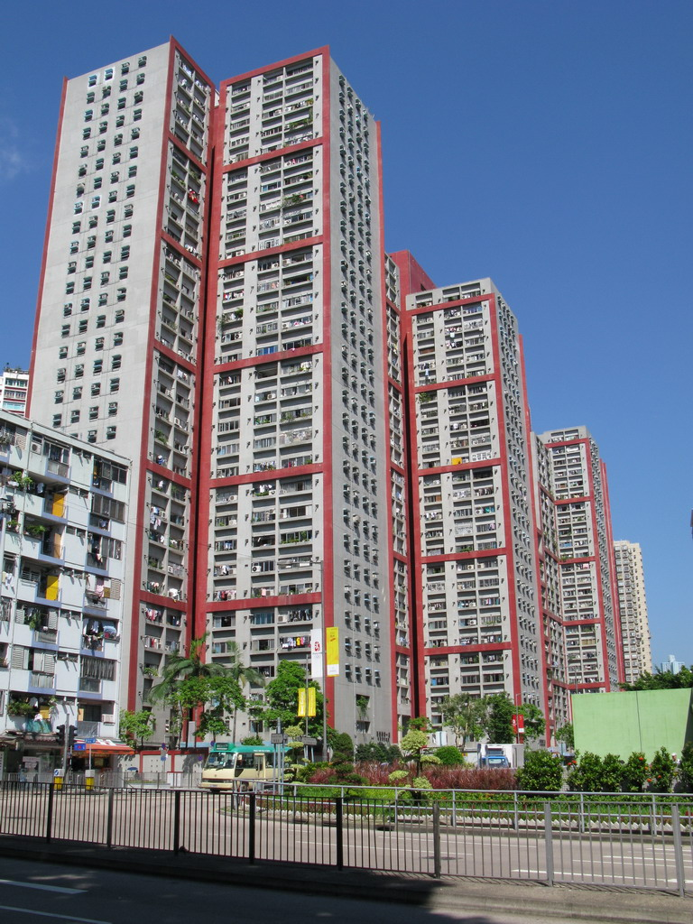 Lotus Towers, Kwun Tong Garden Estate